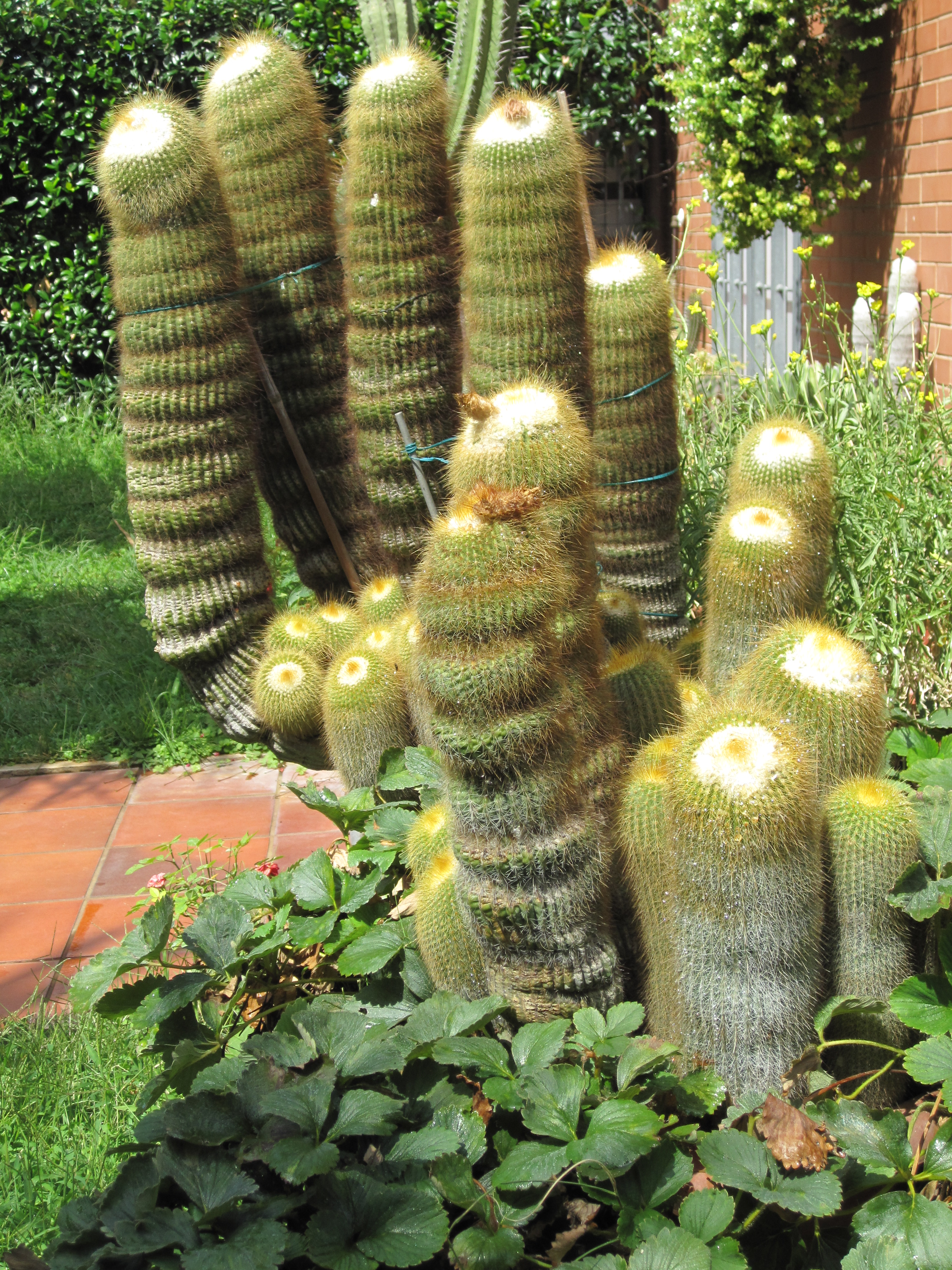 An old parodia leninghausii